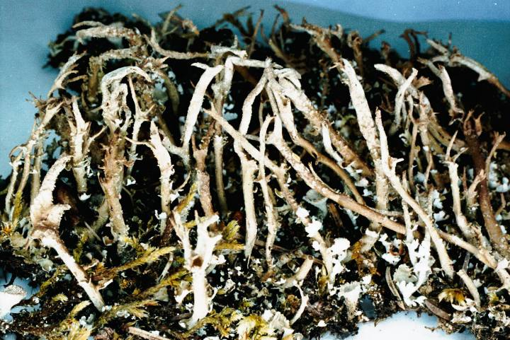 Cladonia farinacea (Vain.) A. Evans, 1950 Photograph of a herbarium specimen. C. farinacea was growing on soil in a cemetery in Steuben, Washington County, Maine, USA (Lat. 44o31' N, Long. 67o58' W) Collected by E.C. Uebel, identified by Dr. David H.S. Richardson (No. U-193, 15 Jun 2001).